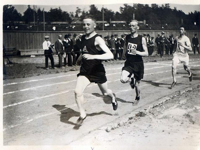 Paavo Nurmi leads the 1,500 m at the 1920 Olympic trials in Helsinki, ahead of Oskari Rissanen and Elias Katz.